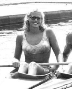 Swedish sprint canoer Ingmarie Svensson at the 1968 Olympics